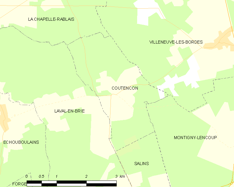 Map of French municipality Coutençon